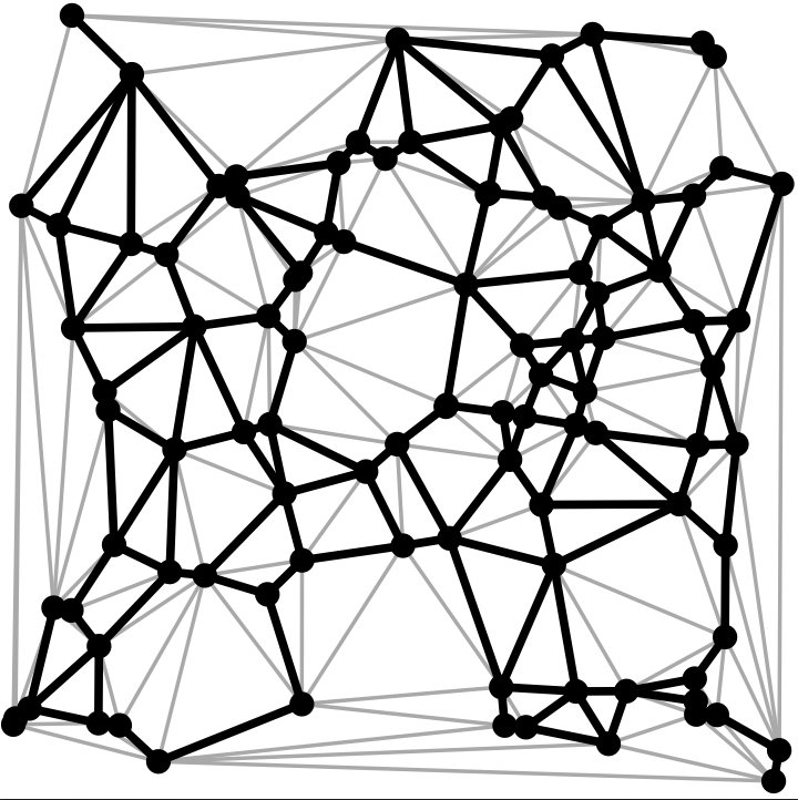 A subgraph of the Delaunay triangulation of a Poisson distribution of points in which the circle enclosing each pair of connected points does not enclose any other points of the graph